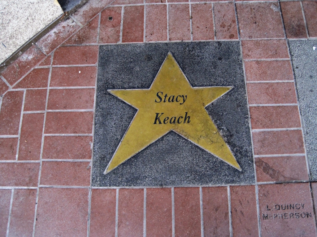 Walk of fame at the Orpheum Theater in Memphis, Tennessee. Stacy Keach